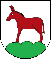 Coat of arms of Movelier, Canton of Jura, Switzerland (Source: Symbol on the wall of the municipal administration)